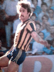 This is a photograph of Jose Van Tuyne taken during his time with Rosario Central in Argentina. He played his last game for the club in 1979